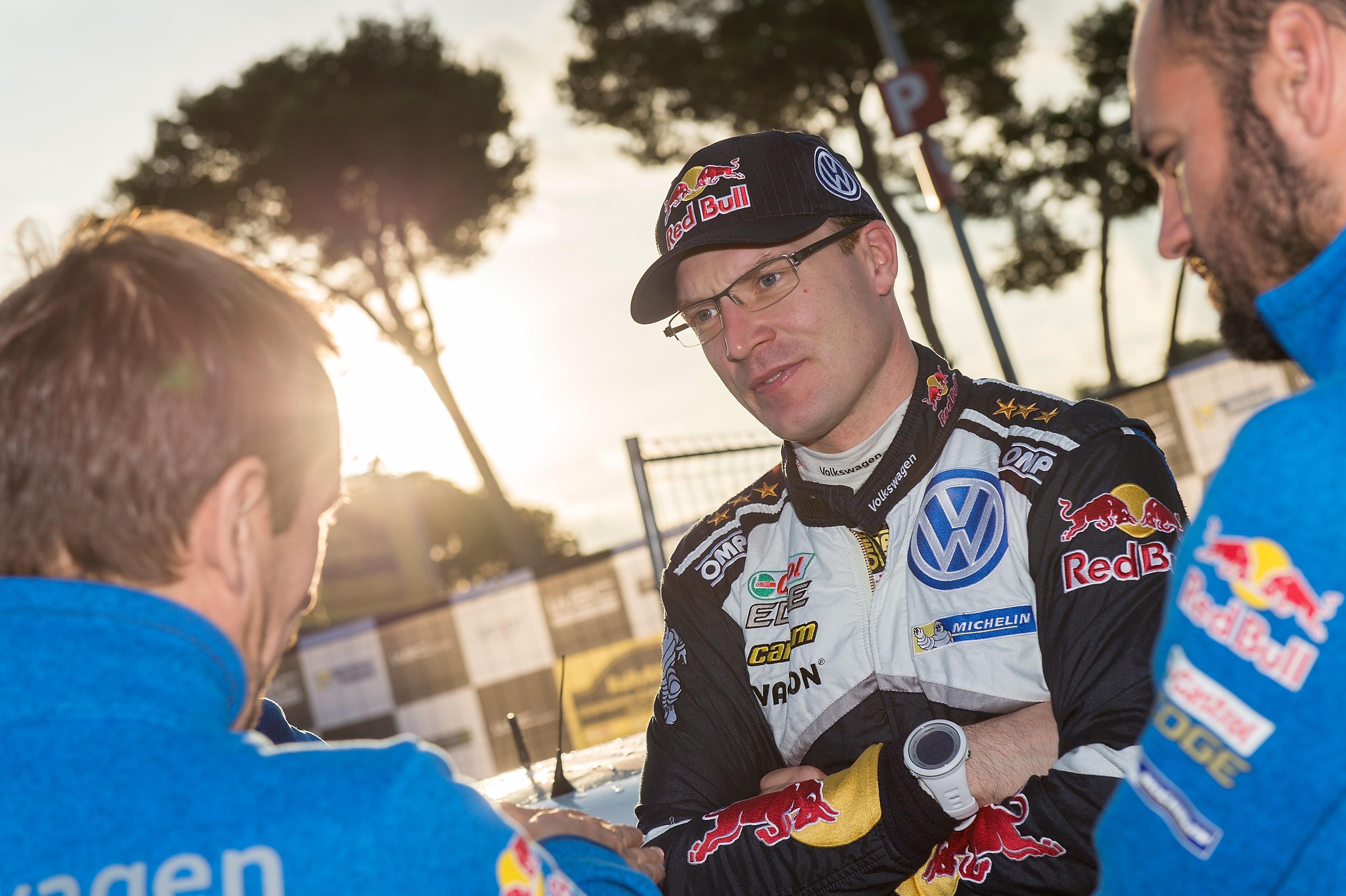 Jari-Matti Latvala, Rally Catalunya 2016.